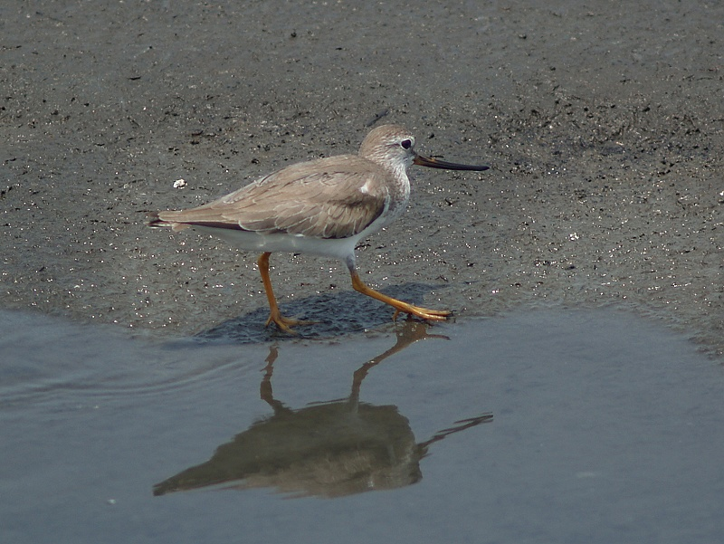 Xenus cinereus（翹嘴鷸）, Yunlin County, Taiwan, 2008.